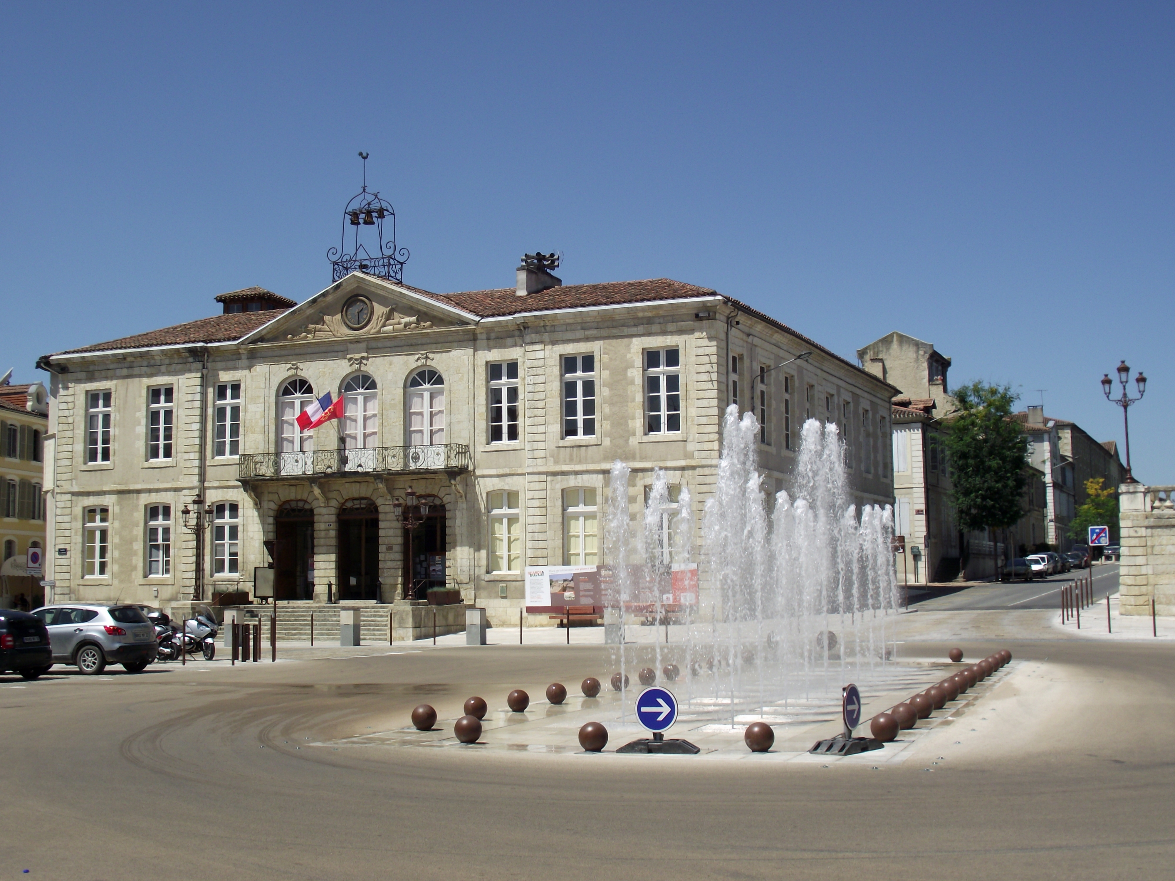 Auch Town Hall, Gers, France